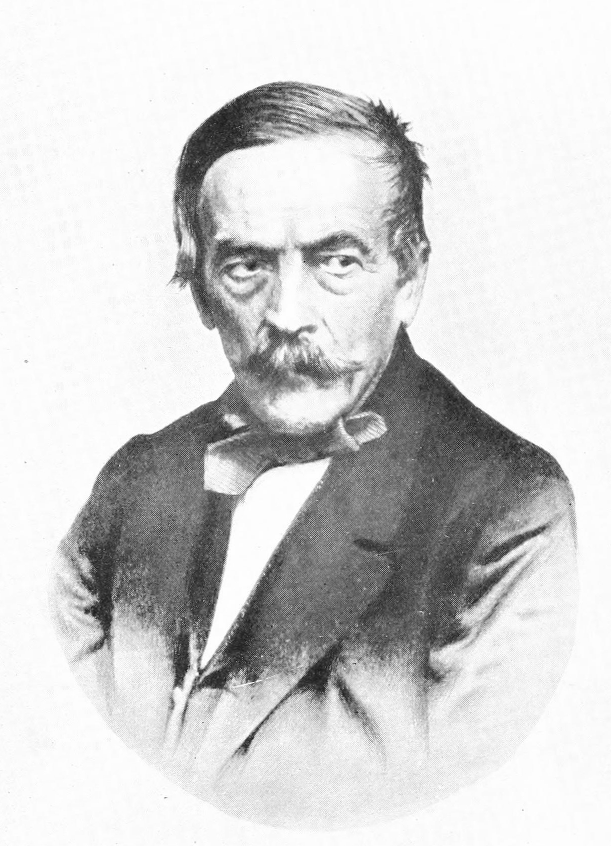 GAWHerrich-Schaffer